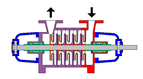 Sectional schematic of a multistage centrifugal pump with double mechanical seals. Author : R. Castelnuovo (myself) 2005 09 27